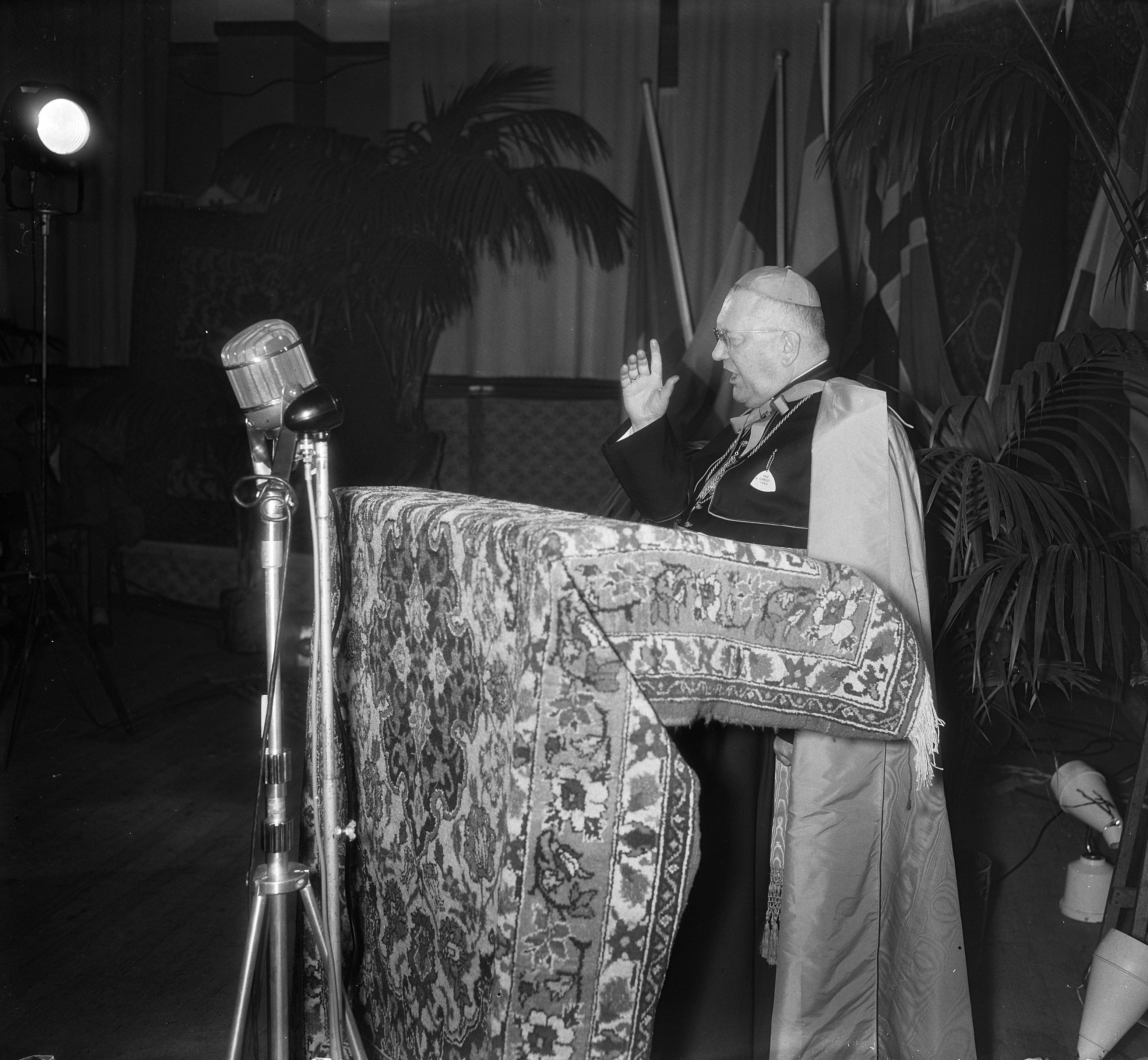 Maurice Feltin, at the opening of a Pax Christi Congress in Nijmegen (NL), 8 August 1955